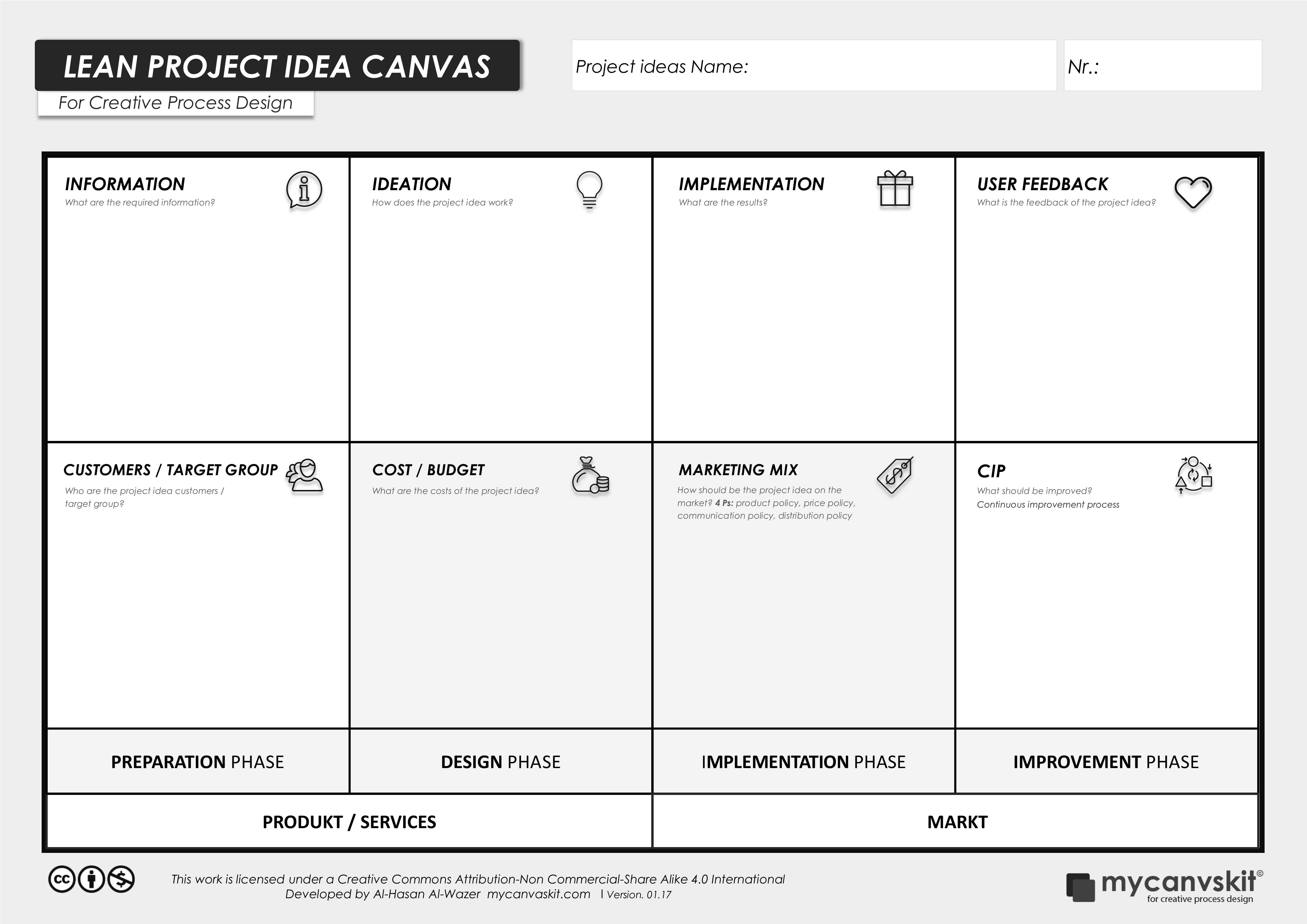 Business Model - Lean Projekt idea is a toolkit for people who have ideas, and wants to identify, analyze, develop and run them. The toolkit is a basic and well thought-out structure with practice-oriented models that give you an overview of the steps of a work step to gradually build your Business model project idea. It simplifies the associated complex tasks and processes to bring you a better Results. Lean Projekt idea gives you a new ways of thinking in your working environment and extends your working methods. It allows you to use more efficient and focused skills and to understand complex processes more easily.